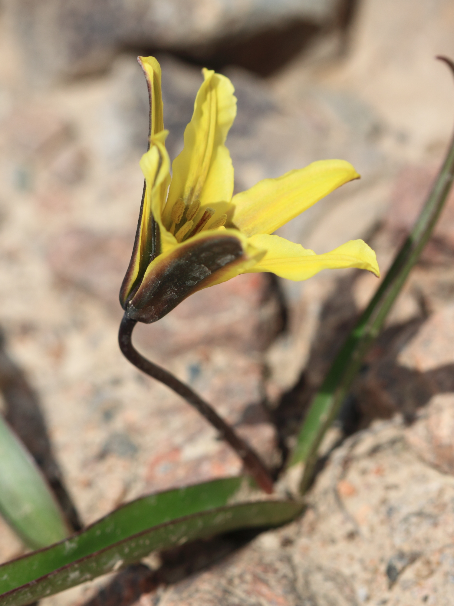 Tulipa heterophylla